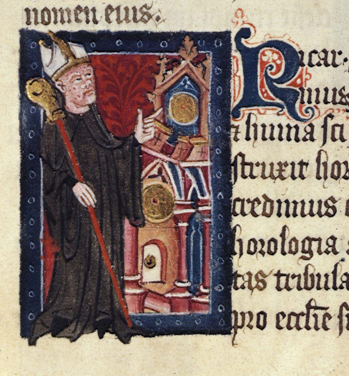 The miniature represents Richard of Wallingford, Abbot of St Albans. He is pointing to a clock, referring to his gift to the abbey, and his face is disfigured by leprosy Title of Work: Golden Book of St Albans Author: Walsingham, Thomas; Wylum, William de, scribe Illustrator: Strayler, Alan Production: England [St Albans]; 1380 Language: Latin